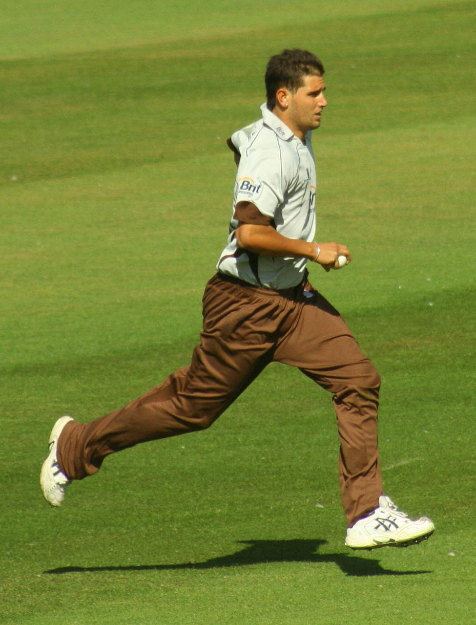 Jade Dernbach, Surrey CCC Cricketer